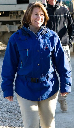 Grete Faremo, Norwegian Minister of Defence.